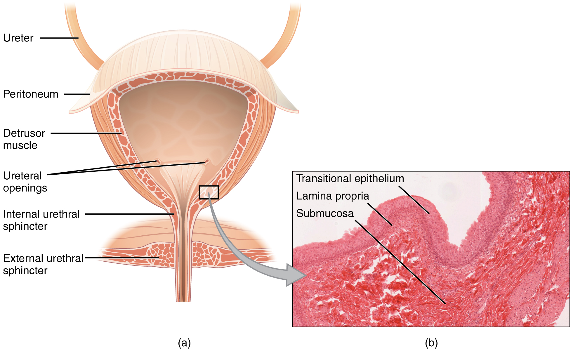 Illustration from Anatomy & Physiology, Connexions Web site. Jun 19, 2013.